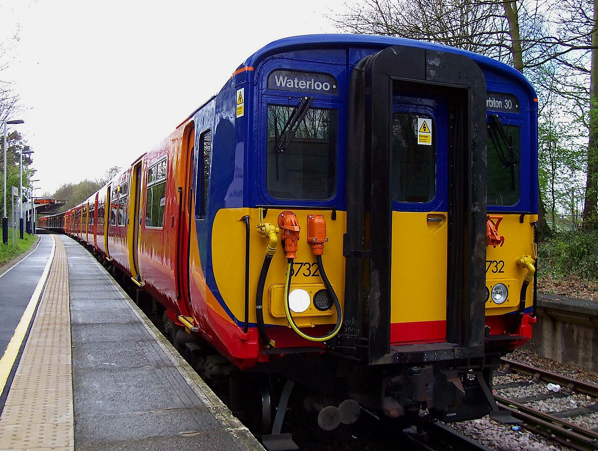 South West Trains refurbished Class 455/7 'Second Series' No. 455732 at Chessington South